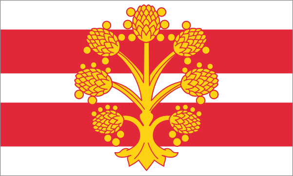 The county flag of Westmorland